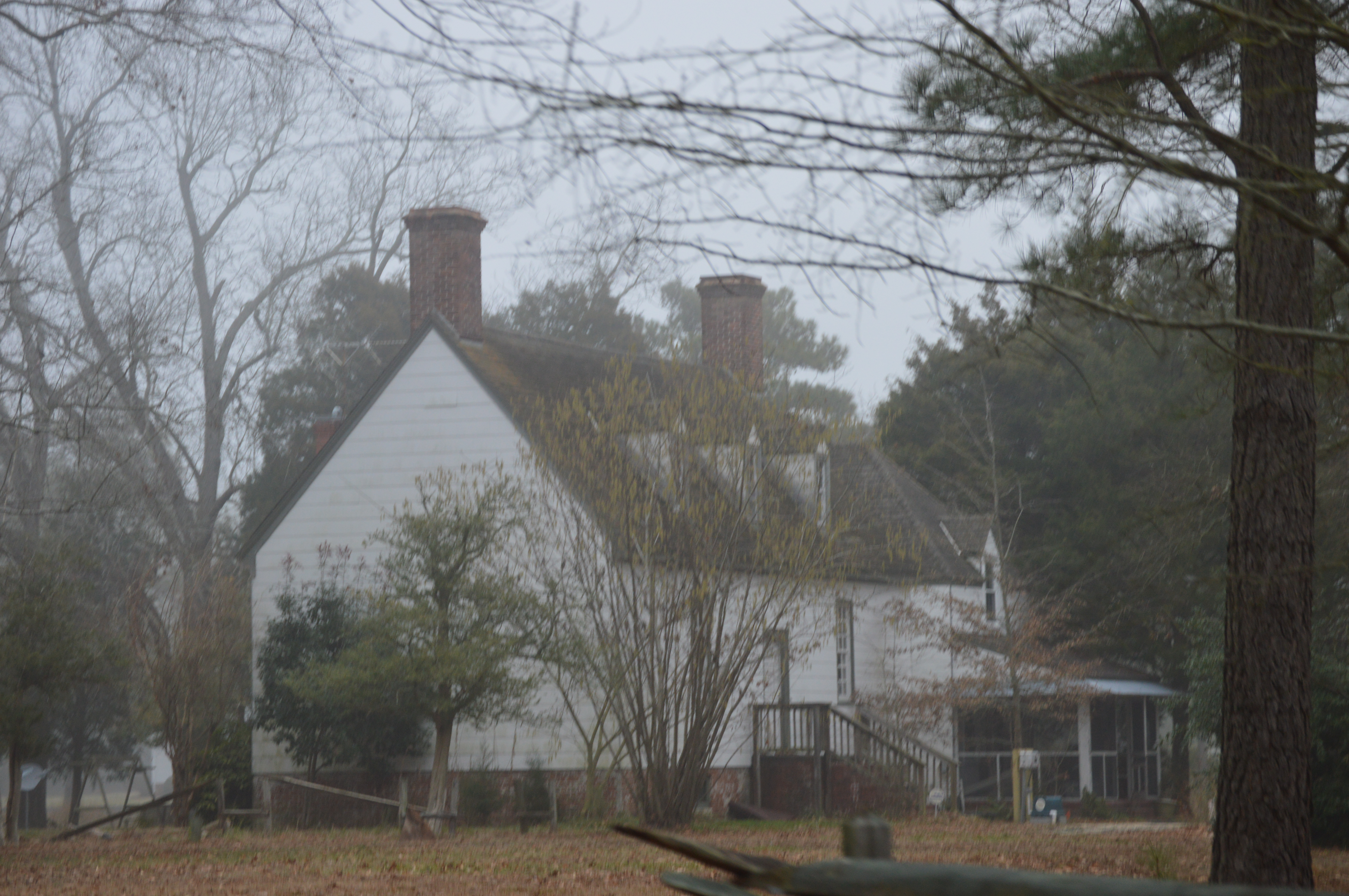 Front and western side of the Billups House, located on Haven Beach Road east of Mathews in Mathews County, Virginia, United States. Built in 1790, it is listed on the National Register of Historic Places.